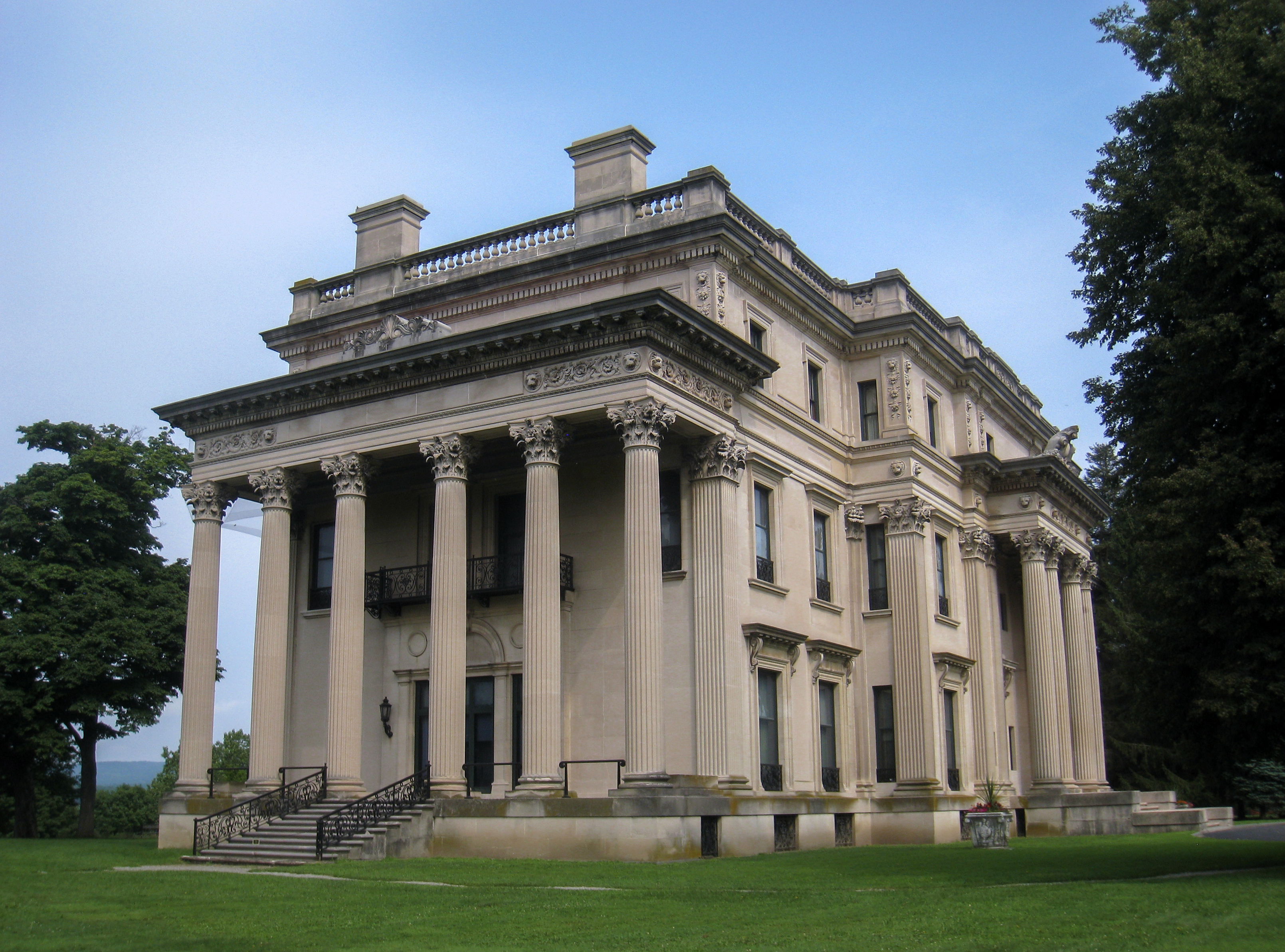 Vanderbilt Mansion National Historic Site, 4097 Albany Post Road, Hyde Park, New York, USA. Home of Frederick William Vanderbilt (1856-1938), built 1895-1898, architect Charles Follin McKim. Maintained by the U.S. National Park Service.